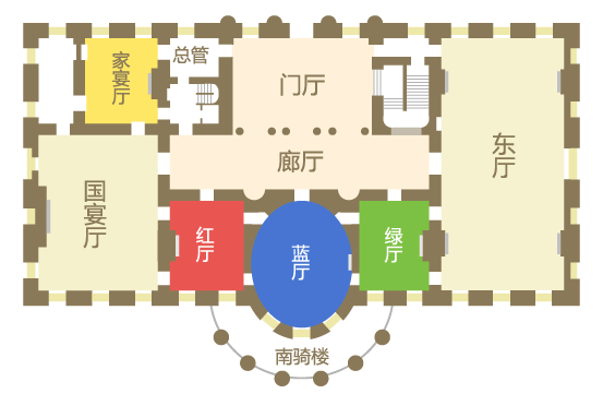 Floor plan of White House State Floor, which features the State Dining Room, East Room, Red Room, Blue Room, Green Room, Cross Hall, Entrance Hall, Grand Staircase, Family Dining Room, Chief Usher's office, and South Portico